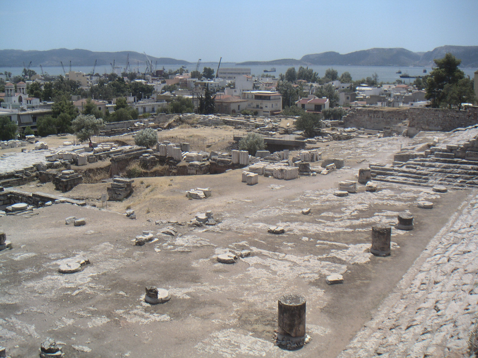 AWIB-ISAW: The Telesterion at Eleusis (III) The ruins of the Telesterion at Eleusis. by Erik Hermans (2006) copyright: 2006 Erik Hermans (used with permission) photographed place: Eleusis (Eleusina) Published by the Institute for the Study of the Ancient World as part of the Ancient World Image Bank (AWIB). Further information